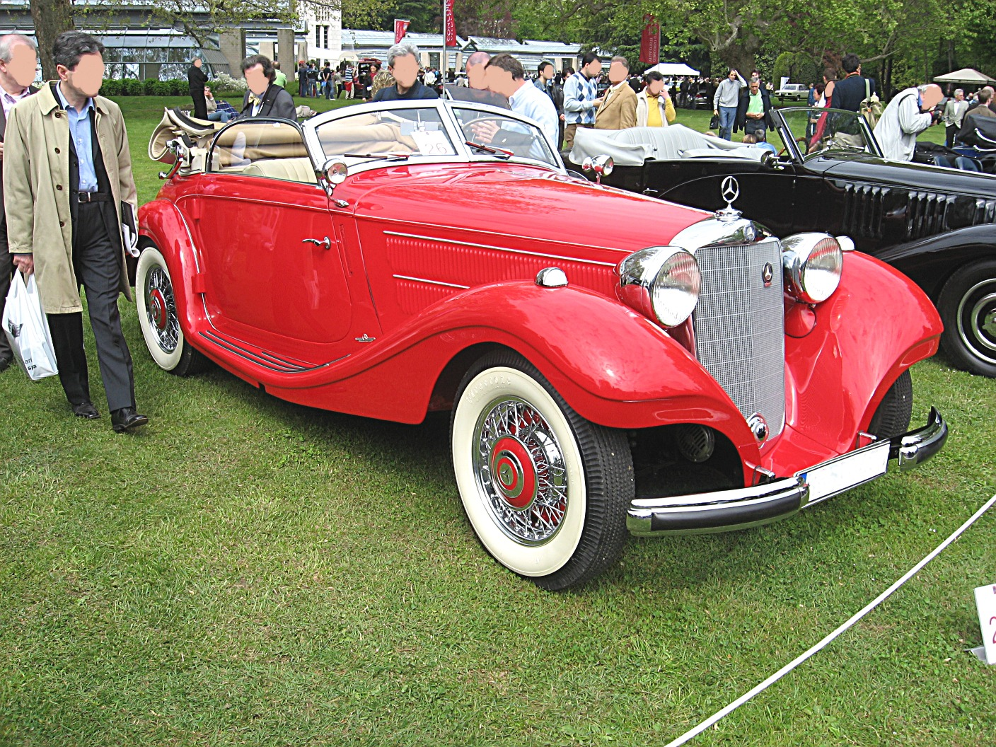 Subject:Mercedes-Benz 320 Cabriolet A Date:April 27th, 2008 Event:Concorso d’Eleganza”Villa d’Este” 2008 Place/Country: Cernobbio (CO), Italy